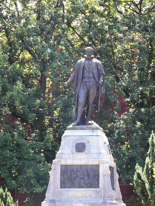 Statue of Pieter Adriaansz. van der Werff by Johan Philip Koelman in Leiden